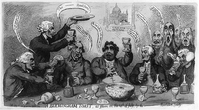 Summary: Print shows Charles James Fox seated at center of a table and raising his glass, "My Soul & Body, both, upon the Toast," to a toast offered by Joseph Priestley, who stands at left holding up an overflowing chalice and an empty communion plate, "The---head, here!" Seated at left are Sir Cecil Wray and Richard B. Sheridan; seated to the right are Horne Tooke and Theophilus Lindsey, and behind them stand caricatured dissenters. Hanging on the wall above Fox is a picture of St. Paul's Cathedral, titled "A Pigs Stye - a view from Hackney," with three pigs eating at a trough.